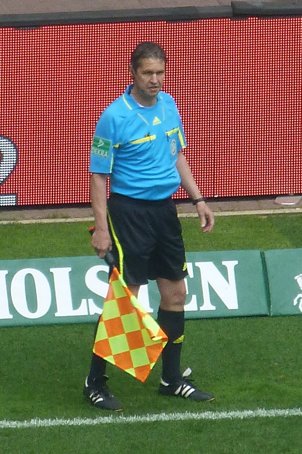 Volker Wezel Referee